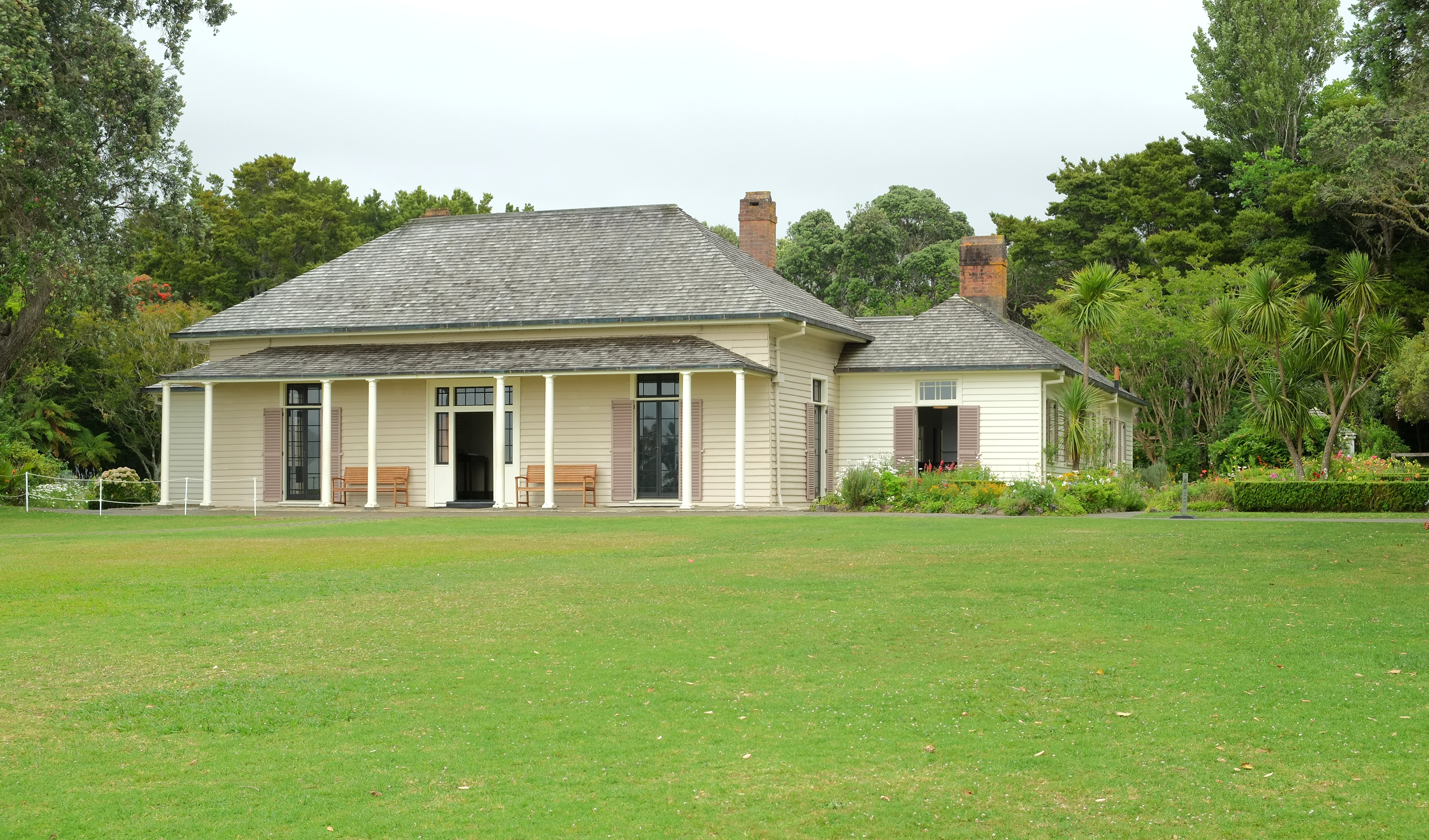 Treaty House at Waitangi Treaty Grounds from the front lawn